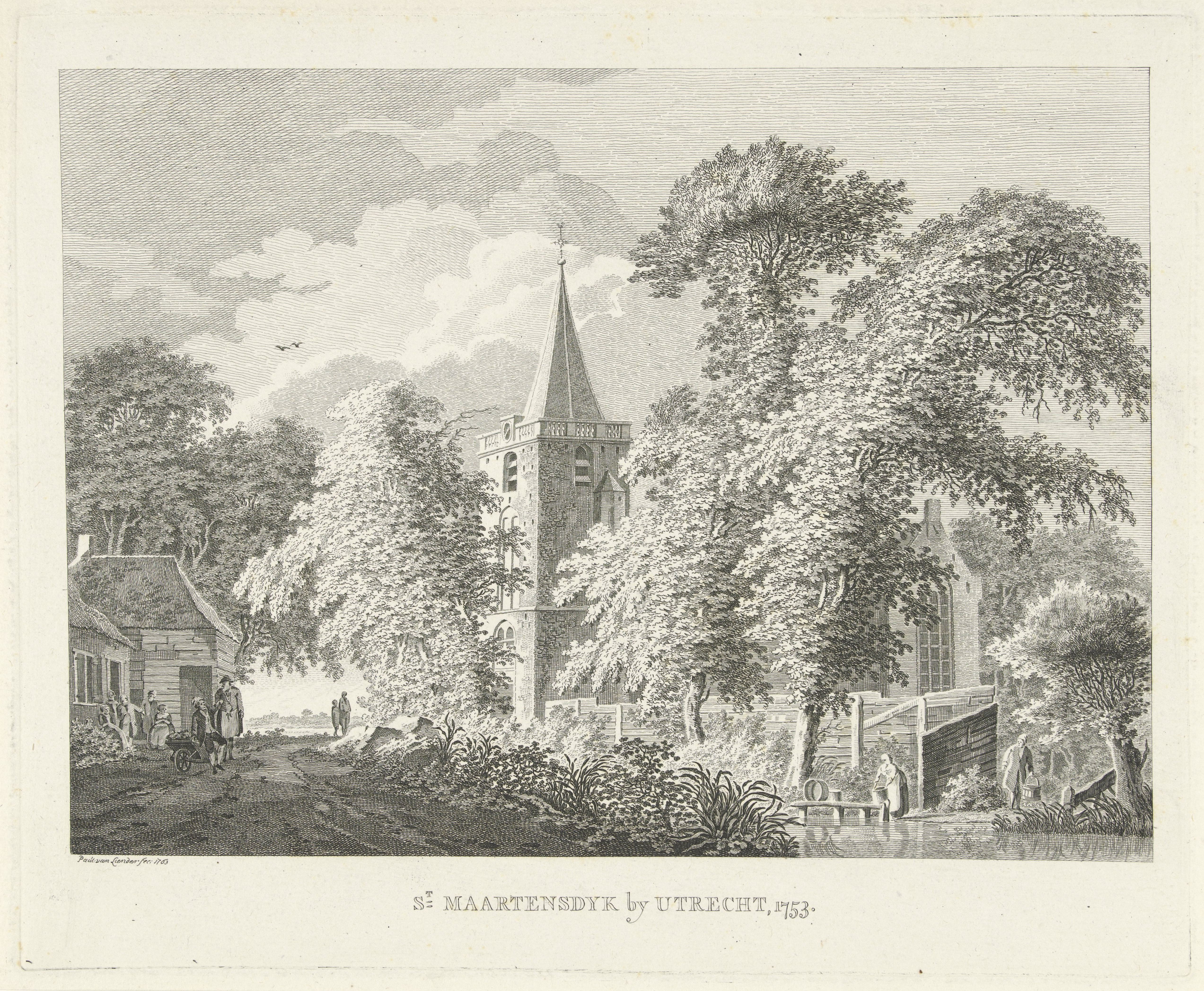 Etching first made in 1753. This print made in 1763. From the collection of the Rijksmuseum, Amsterdam, The Netherlands.